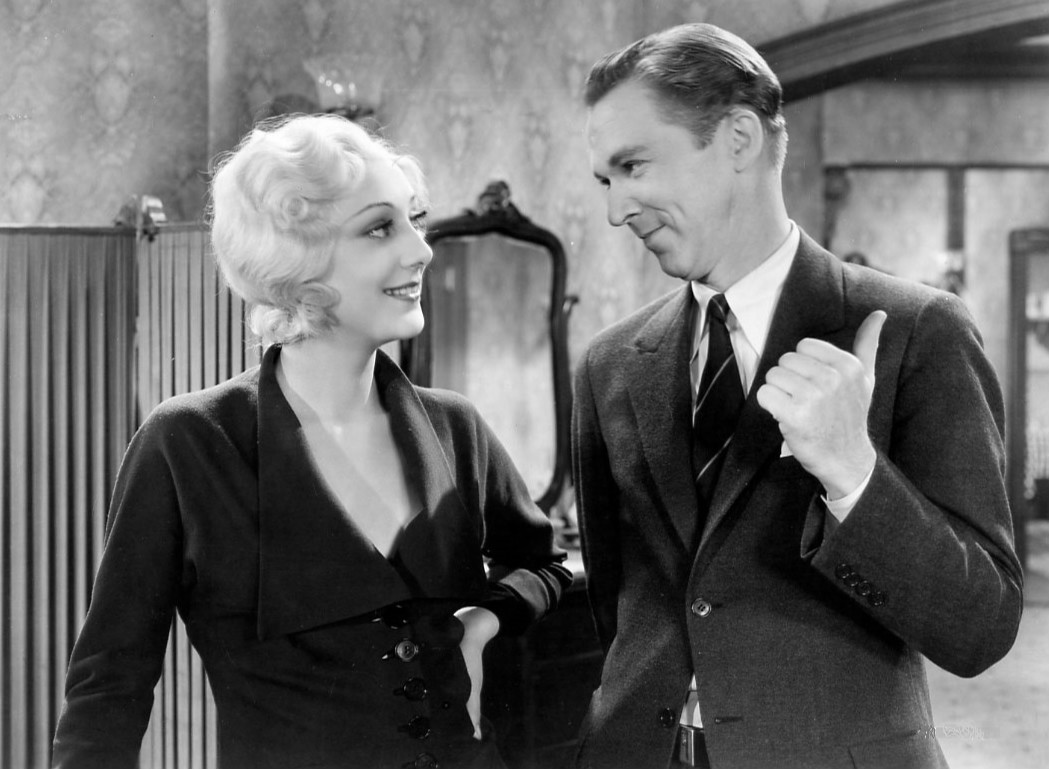 Still from the 1932 film The Strange Love of Molly Louvain.